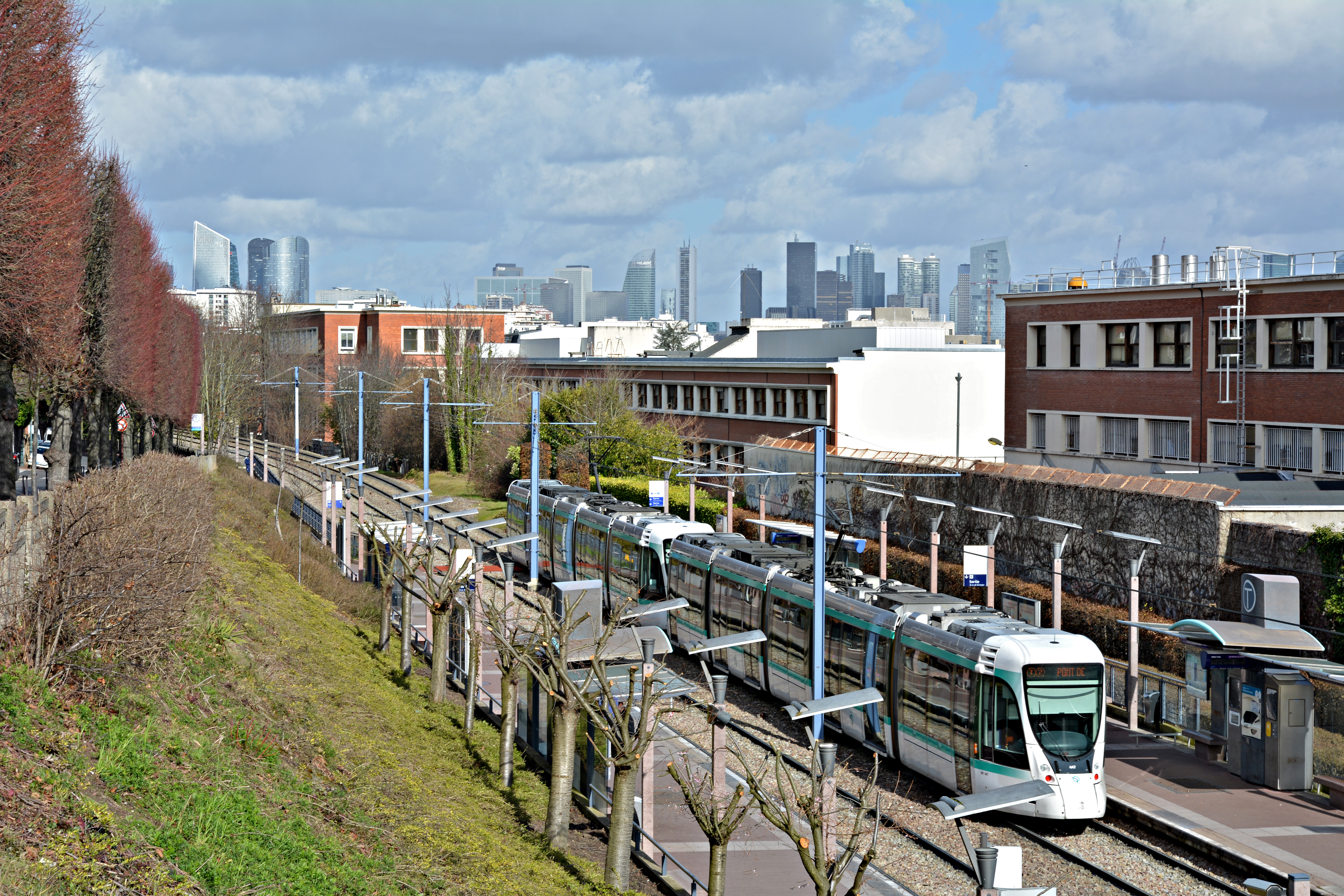 Tramway station Les Coteaux, Line T2, in the suburb (Saint-Cloud) of Paris, France